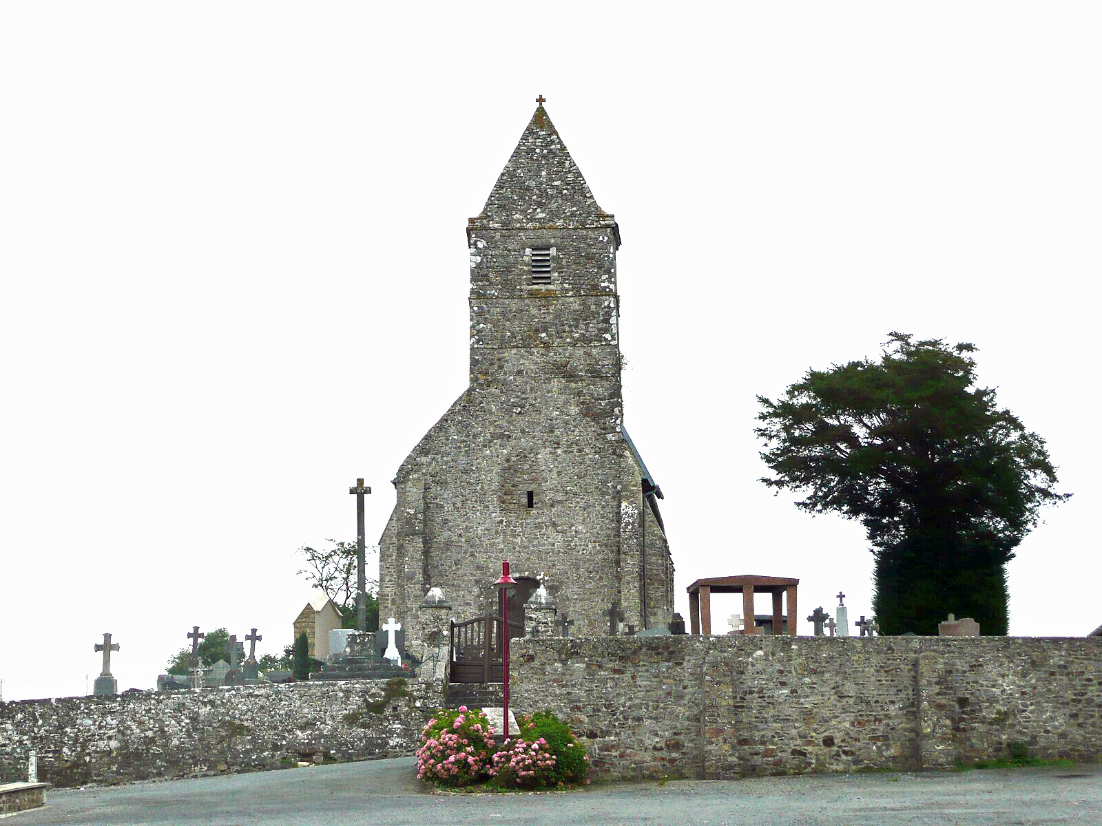 Hyenville - Church and cemetery.